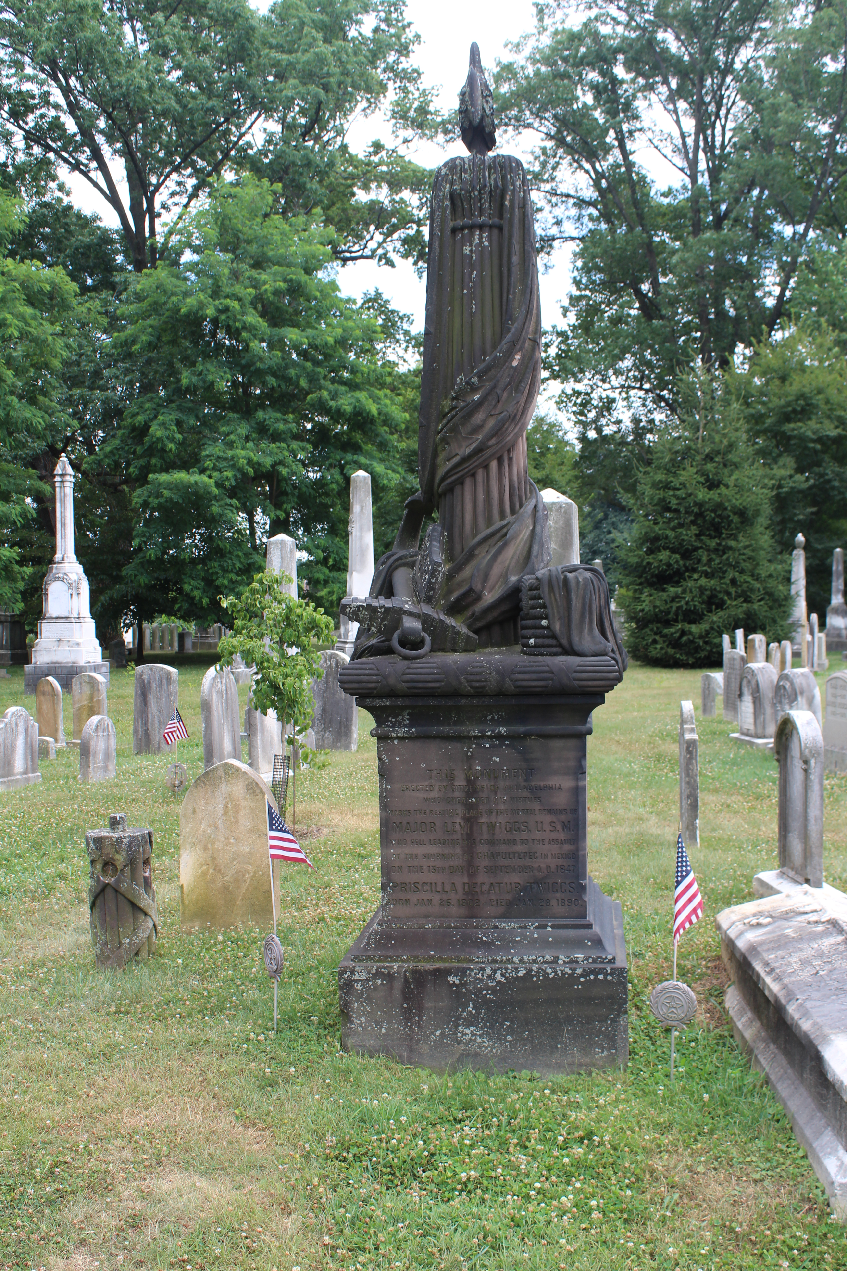 Levi Twiggs memorial in Laurel Hill Cemetery. Photo taken July 2020.